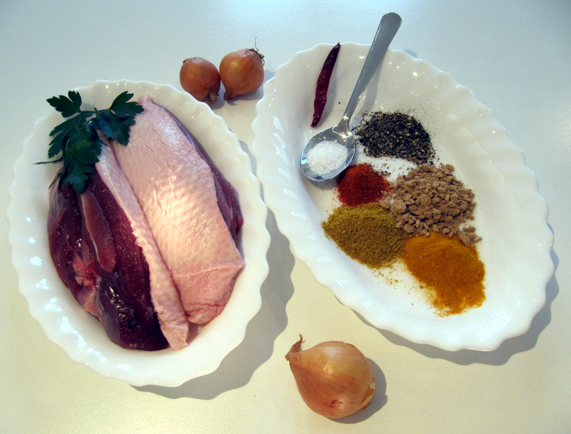 Ingredients for a Mulligatawny soup according to the recipes published in 1828 and reprinted in 1868 with roasted duck as fowl and small fried onions added to the soup before serving.